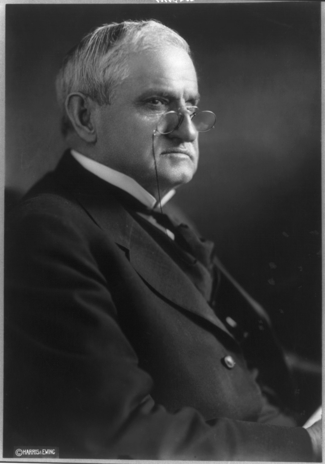 Title: Digital display record: This record exists solely to make the digital image available. You may be able to find information about the displayed item by looking at other online catalog records retrieved with the Reproduction Number below. If no such record is retrieved, information may be found in Prints & Photographs Division manual indexes. Abstract/medium: 1 photograph : print.